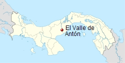 Location of El Valle de Antón in Panama, the natural range of Ecnomiohyla rabborum